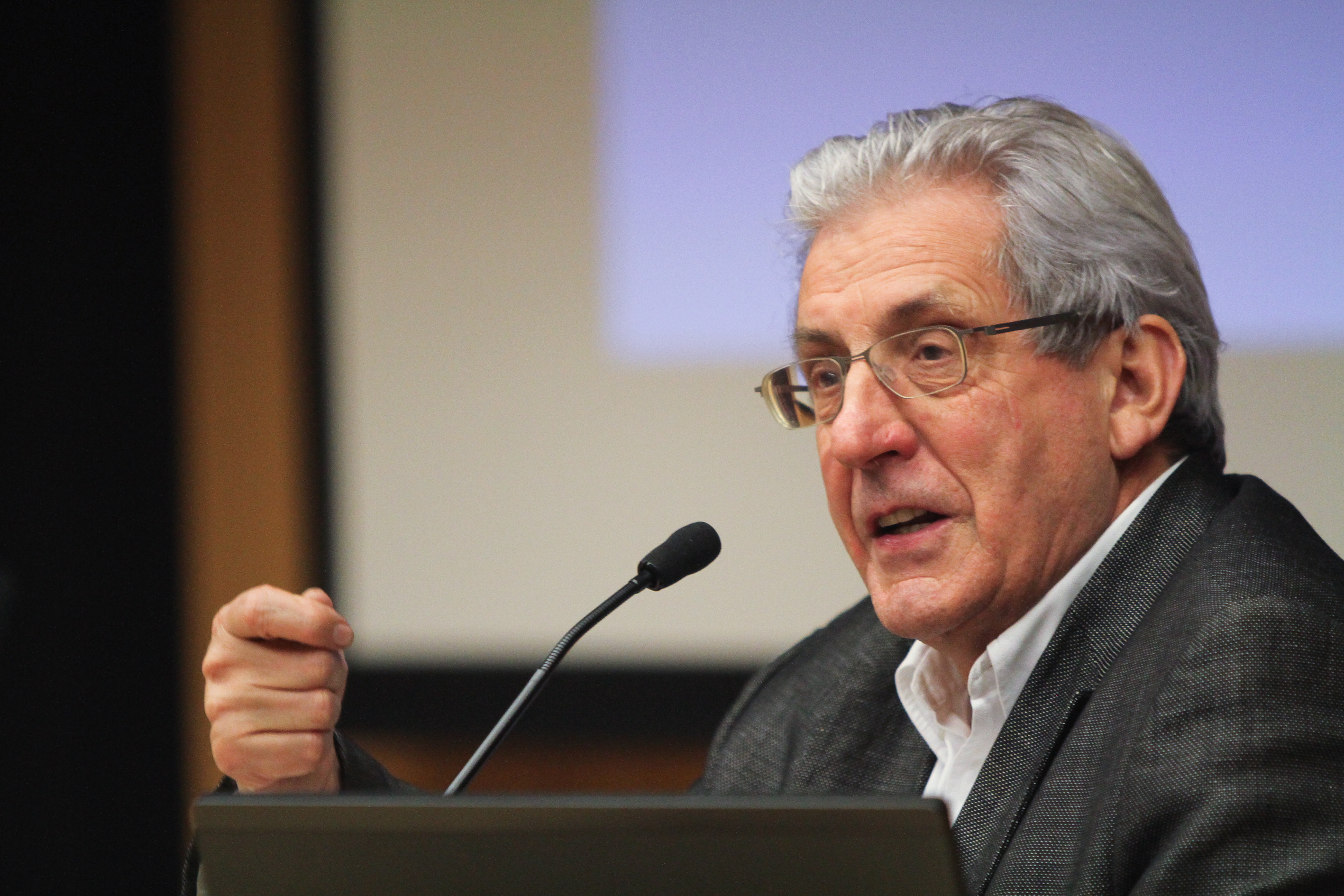 Pedro Miguel Etxenike in conference Advise to a young scientist. San Sebastian-Donostia, february 2013